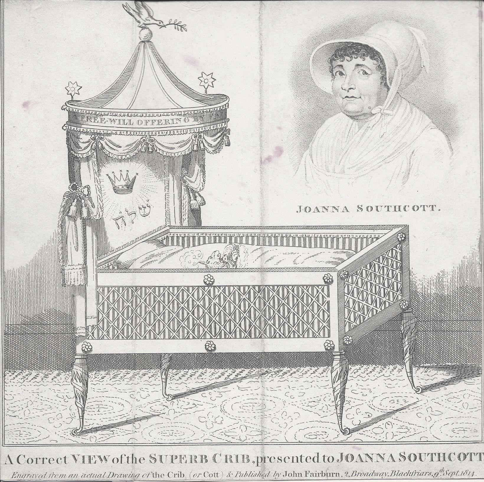 A Correct View of the Superb Crib, presented to Joanna Southcott. Engraved from an actual Drawing of the Crib (or Cott) & Published by John Fairburn, 2 Broadway, Blackfriars. 9th Sept. 1814